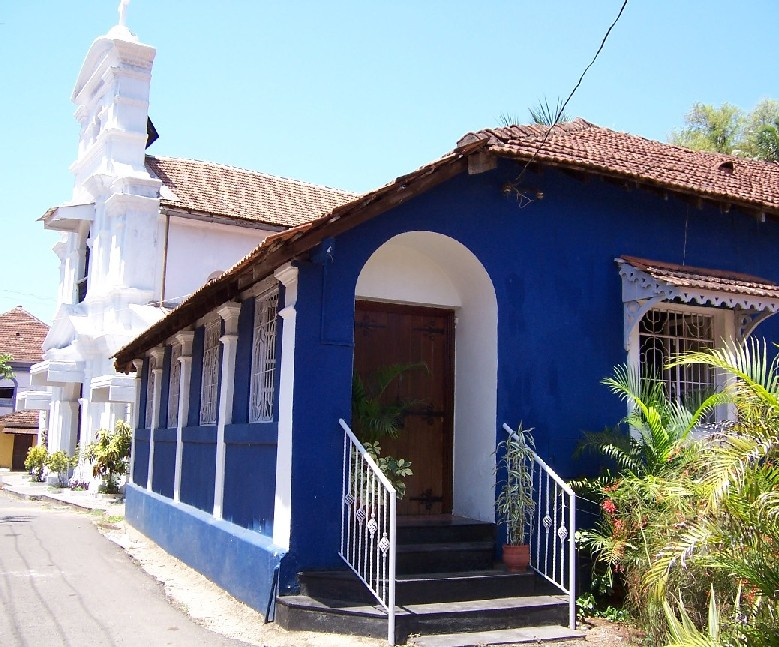 Absolutely love the color of the house !!